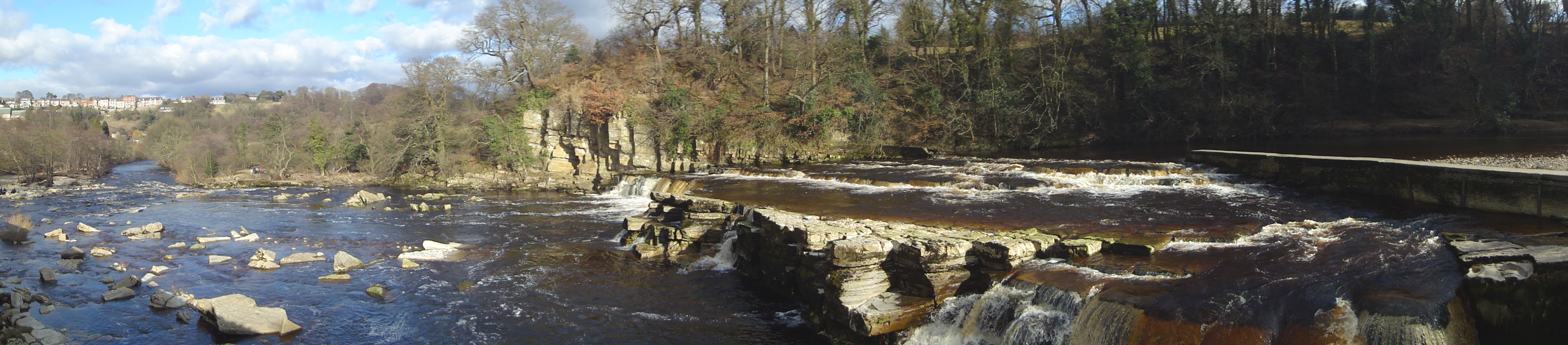 A panoramic view of Richmond falls